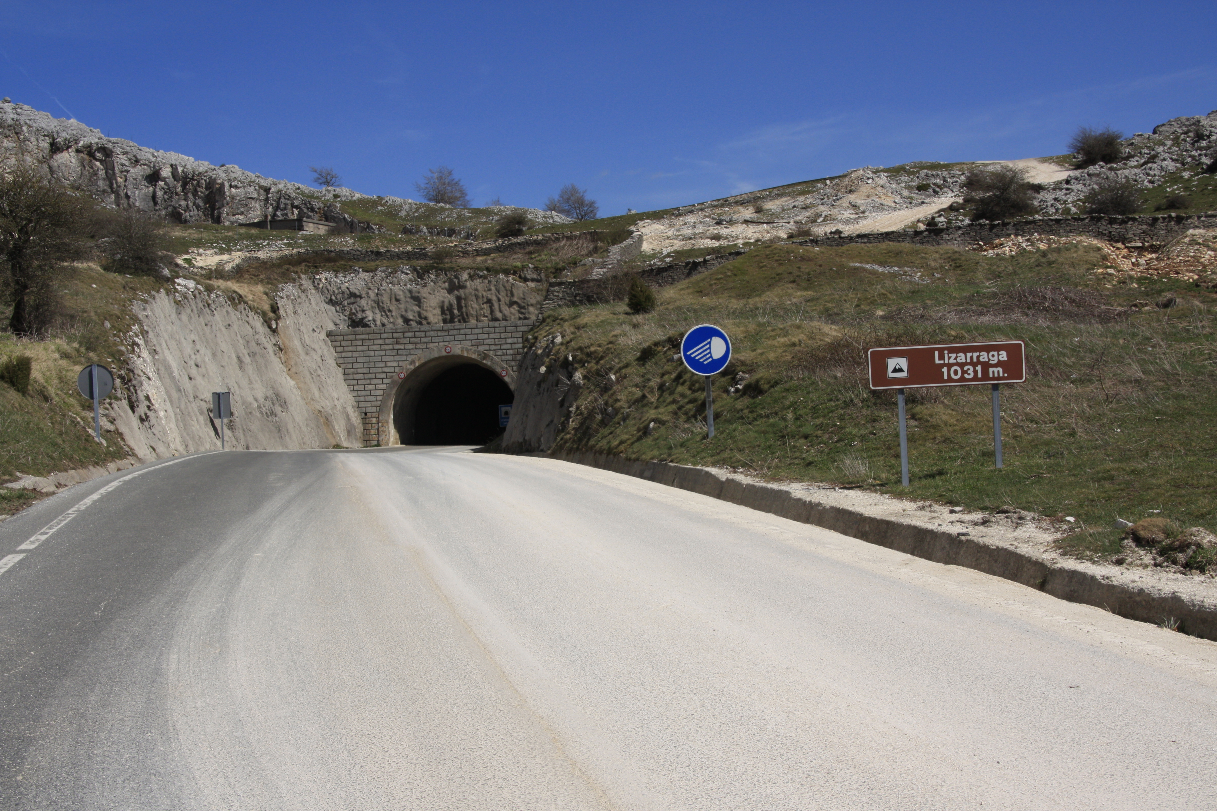 Lizarraga mountain pass and tunnel, Navarre.